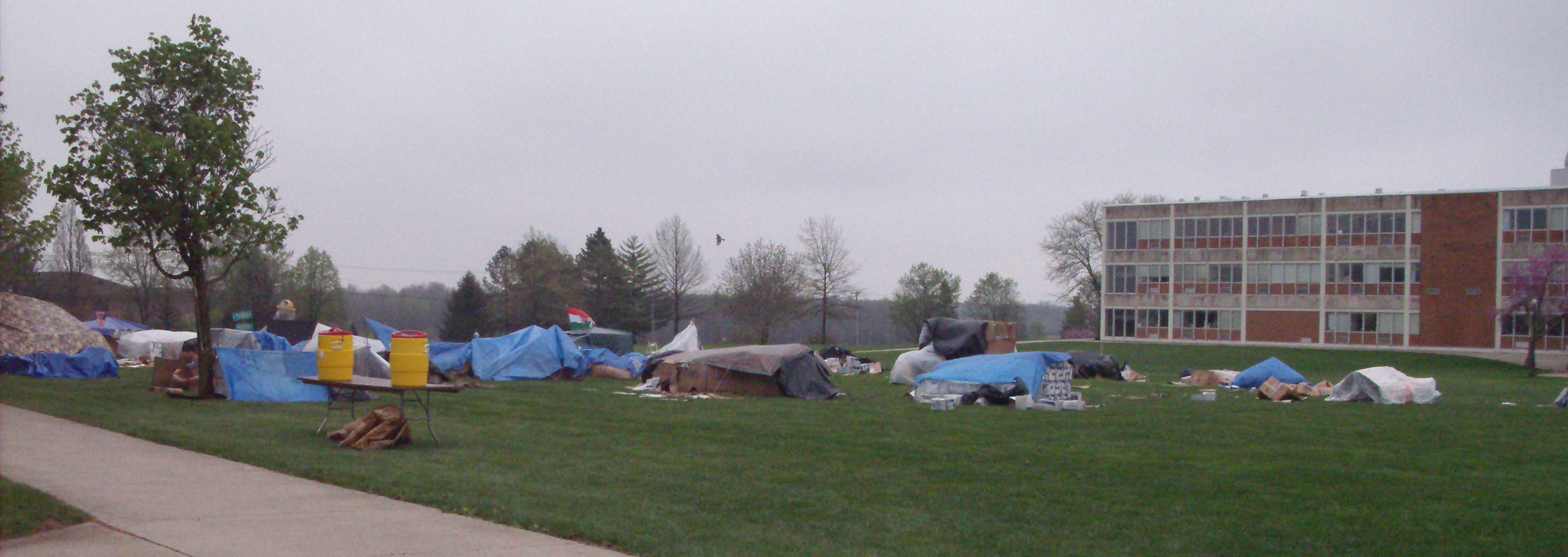 Once a year students at Taylor University live outside for a week to raise awareness for social injustice around the world